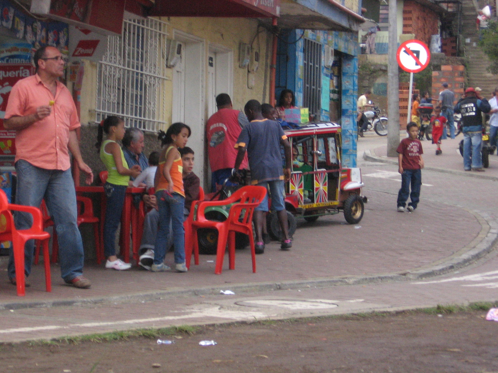 A traditional street of Barrio Santo Domingo Savio, North-East of Medellín, Colombia.